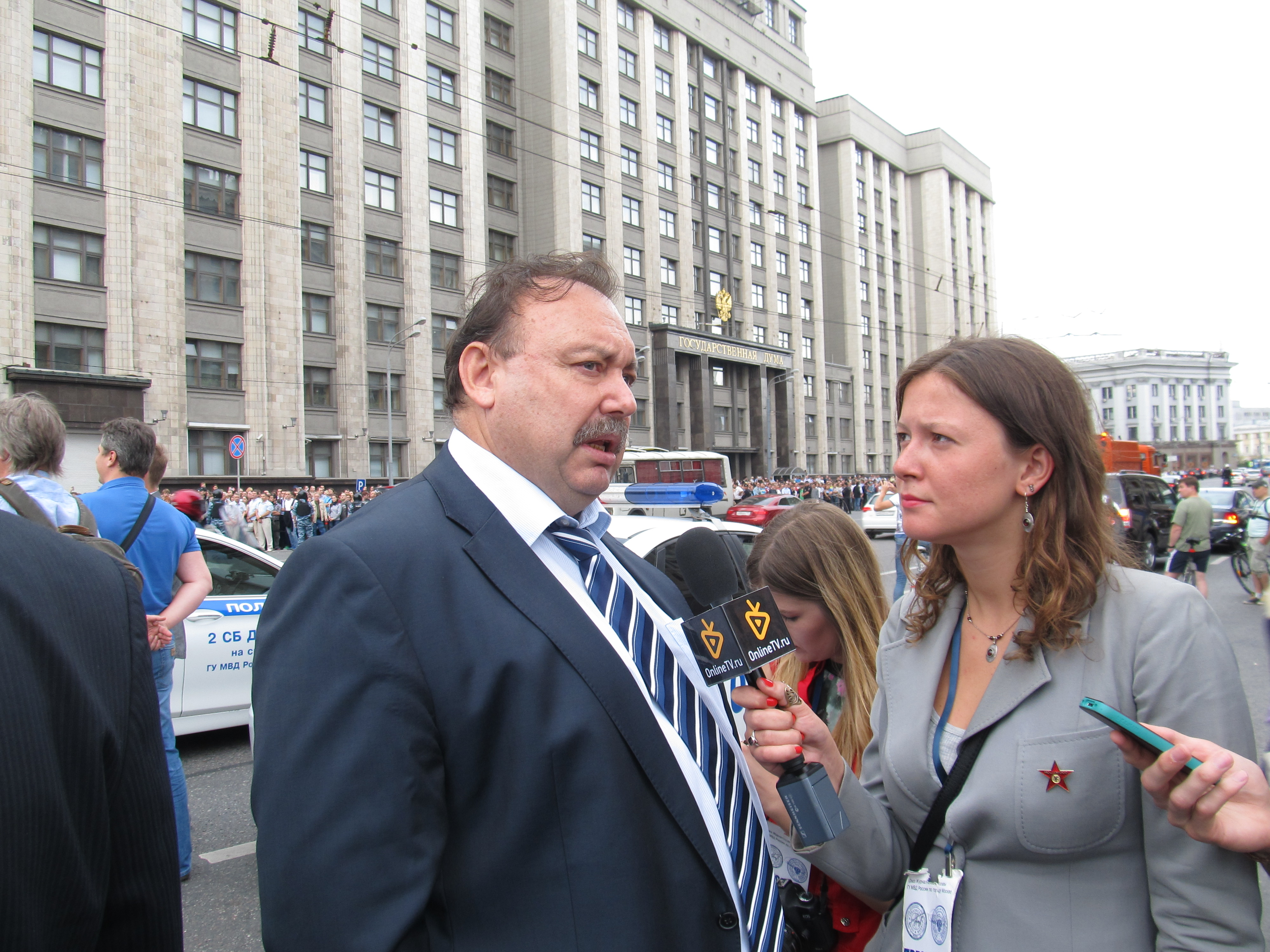 Gennady Gudkov giving interview on the manifestations 2013-07-18 against imprisonment of Alexey Navalny